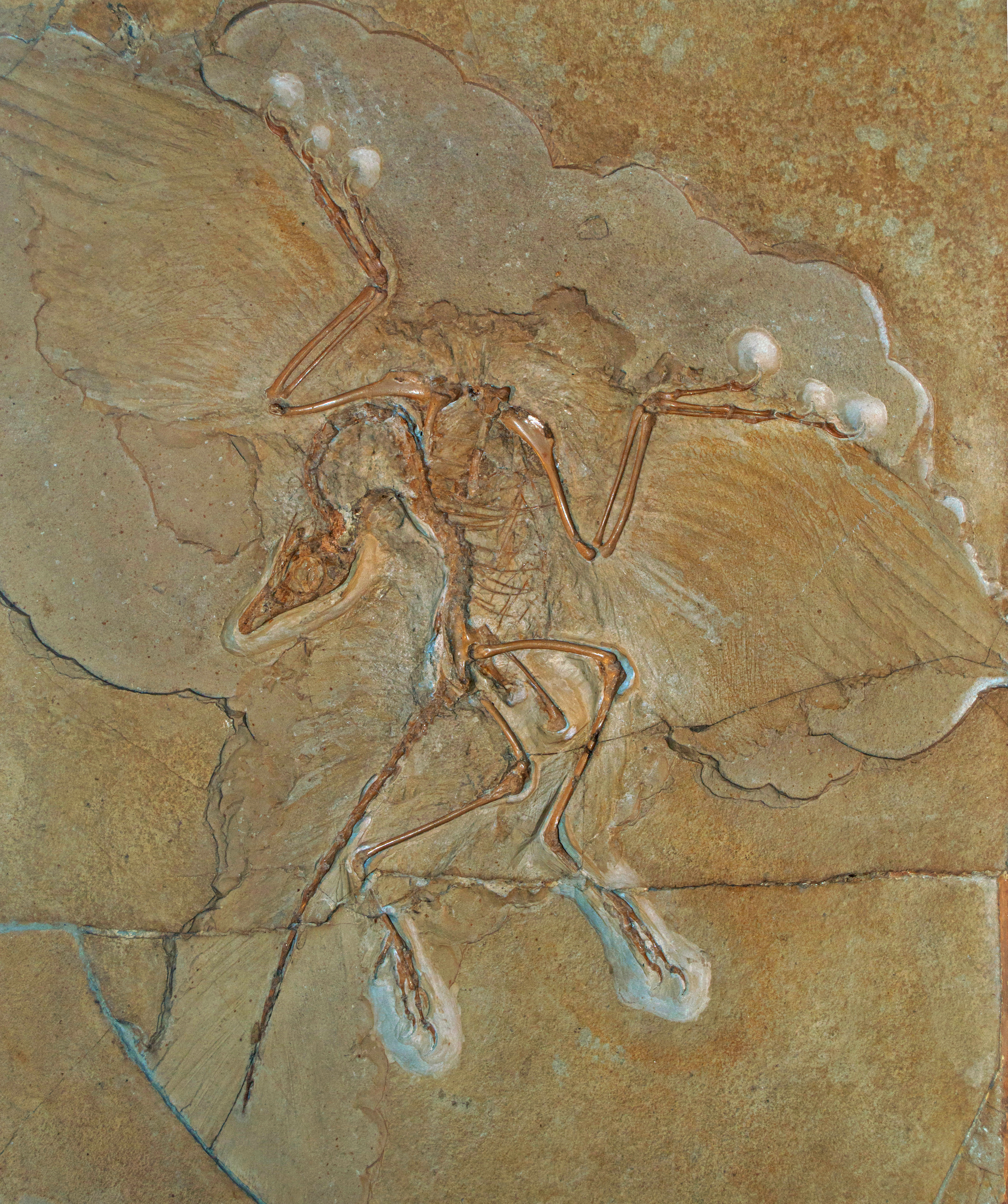 Archaeopteryx lithographica fossil displayed at the Museum für Naturkunde in Berlin. (Original specimen; not a cast)